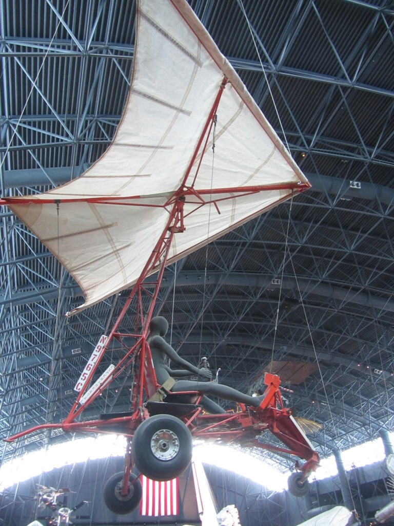 NASA Parasev 1A